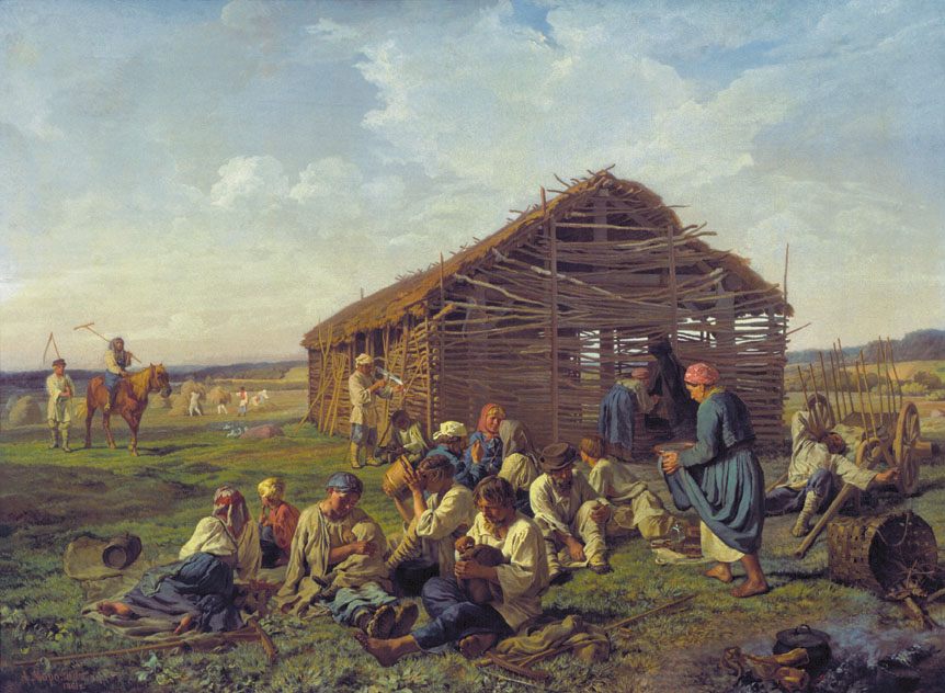 Alexander Iwanowitsch Morosow (1835-1904) Rest At Haymaking